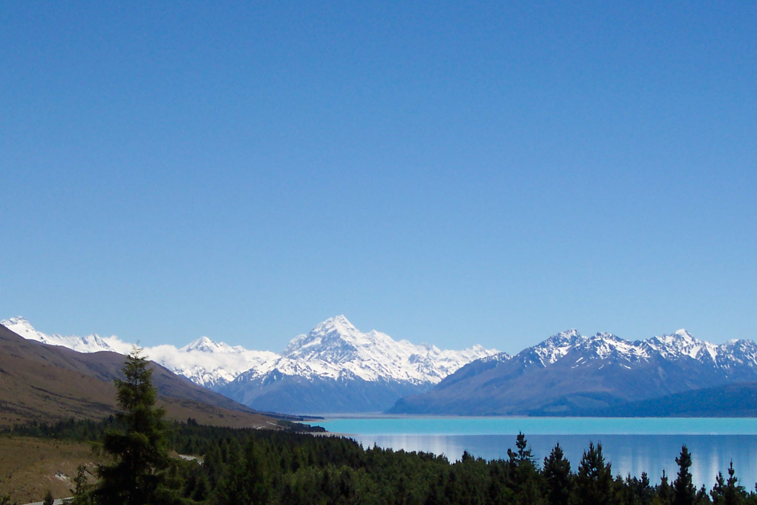 View at Mt. Cook from south east; Photo Taken by Steffen Hillebrand (Dec. '04).